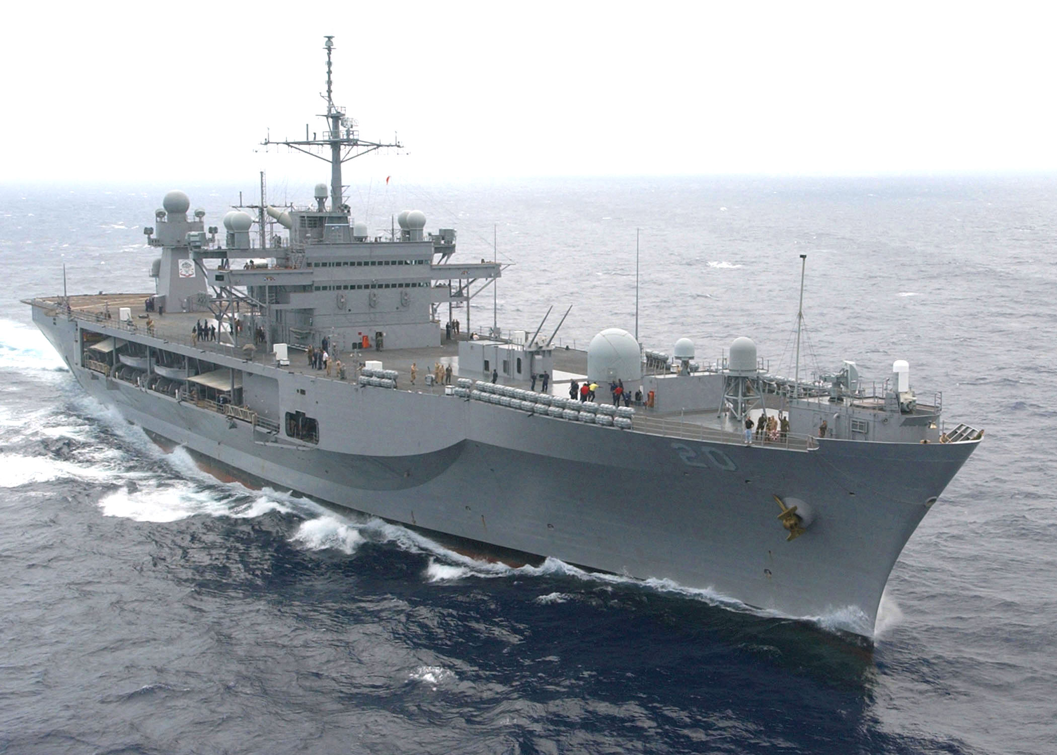 Atlantic Ocean (June 20, 2004) – The amphibious command ship USS Mount Whitney (LCC 20) conducts operations along the East Coast with Nimitz-class aircraft carrier USS Harry S. Truman (CVN 75). U.S. Navy photo by Photographer's Mate Airman Ryan O'Connor (RELEASED)